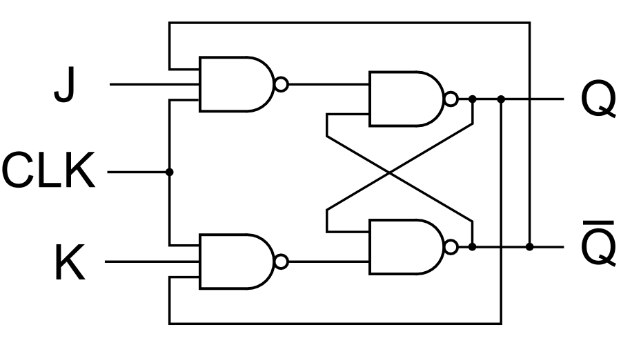 JK-FlipFlop digital circuit (4-NAND)